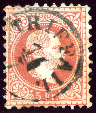 Austrian KK stamp, 5 kr issue 1874, cancelled TRIFAIL, Styria province, now TRBOVLJE (Slovenia).